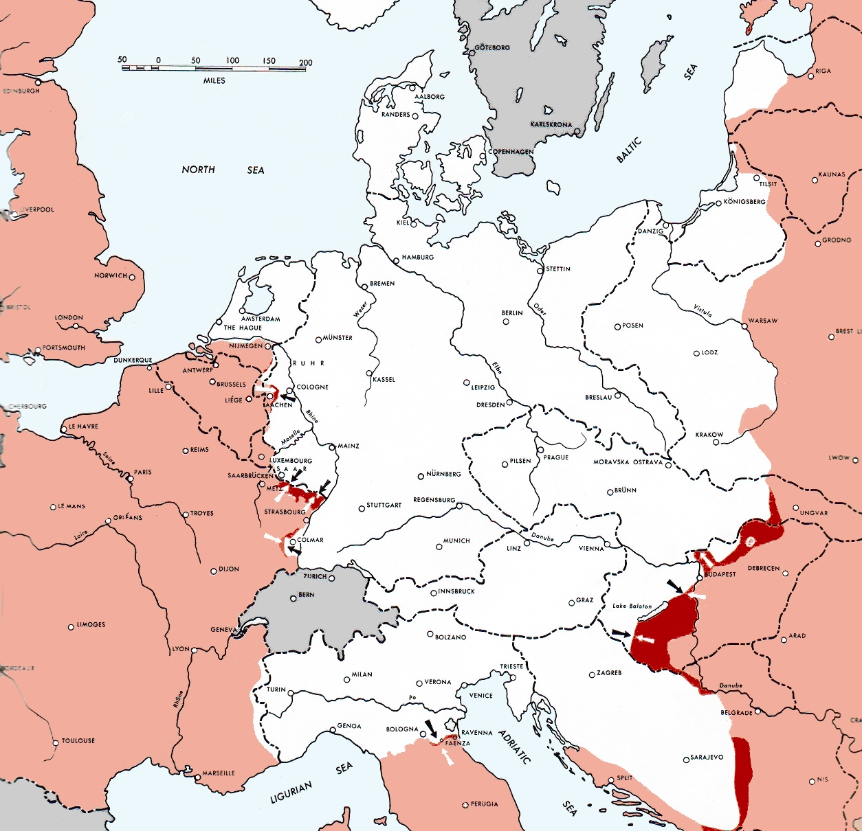 Map of the front against Germany: This map is taken from the source "Atlas of the World Battle Fronts in Semimonthly Phases to August 15th 1945: Supplement to The Biennial report of The Chief of Staff of the United States Army July 1, 1943 to June 30 1945 To the Secretary of War". (See Cover, Forward and Map details)